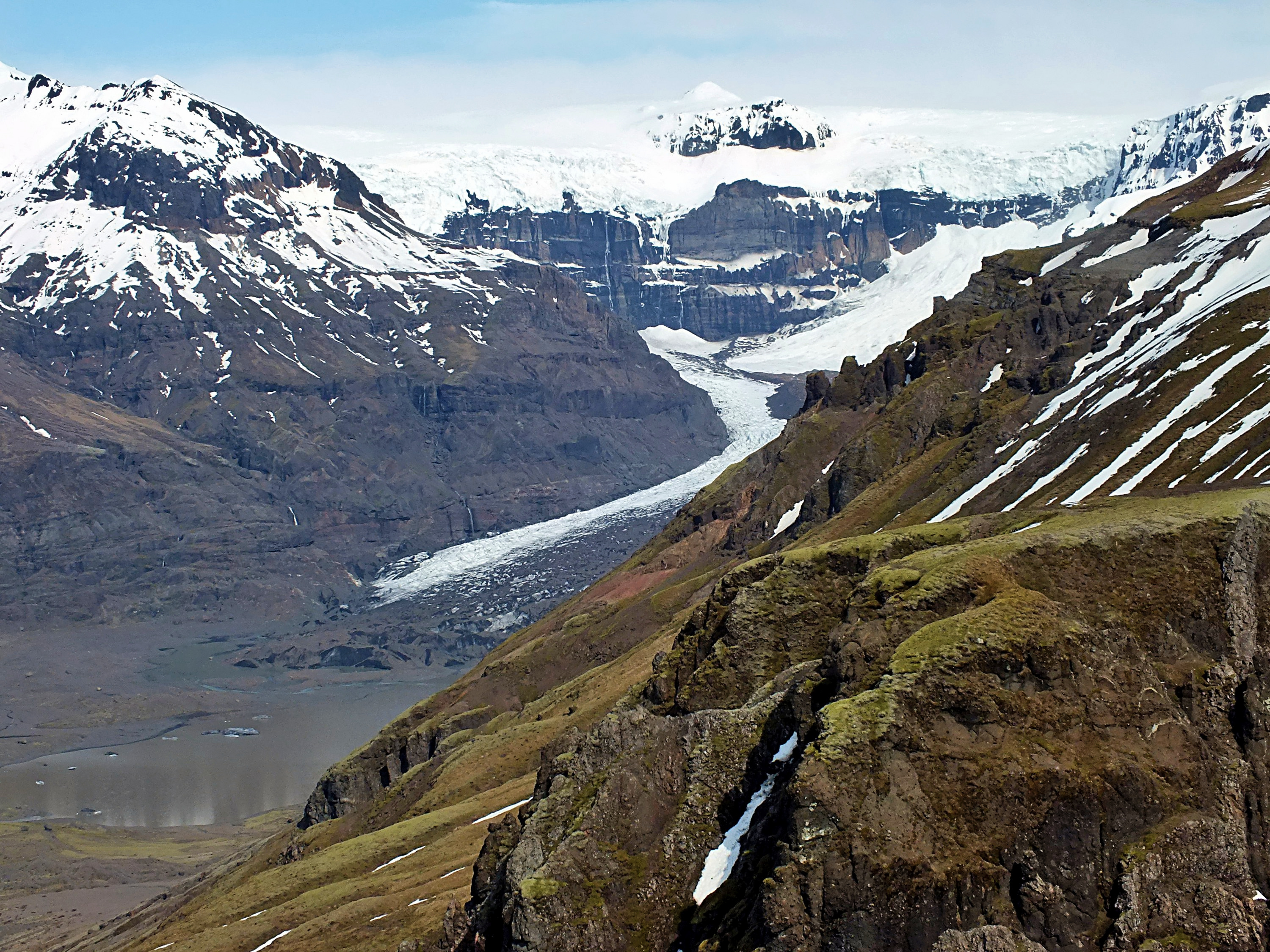 Morsárjökull.